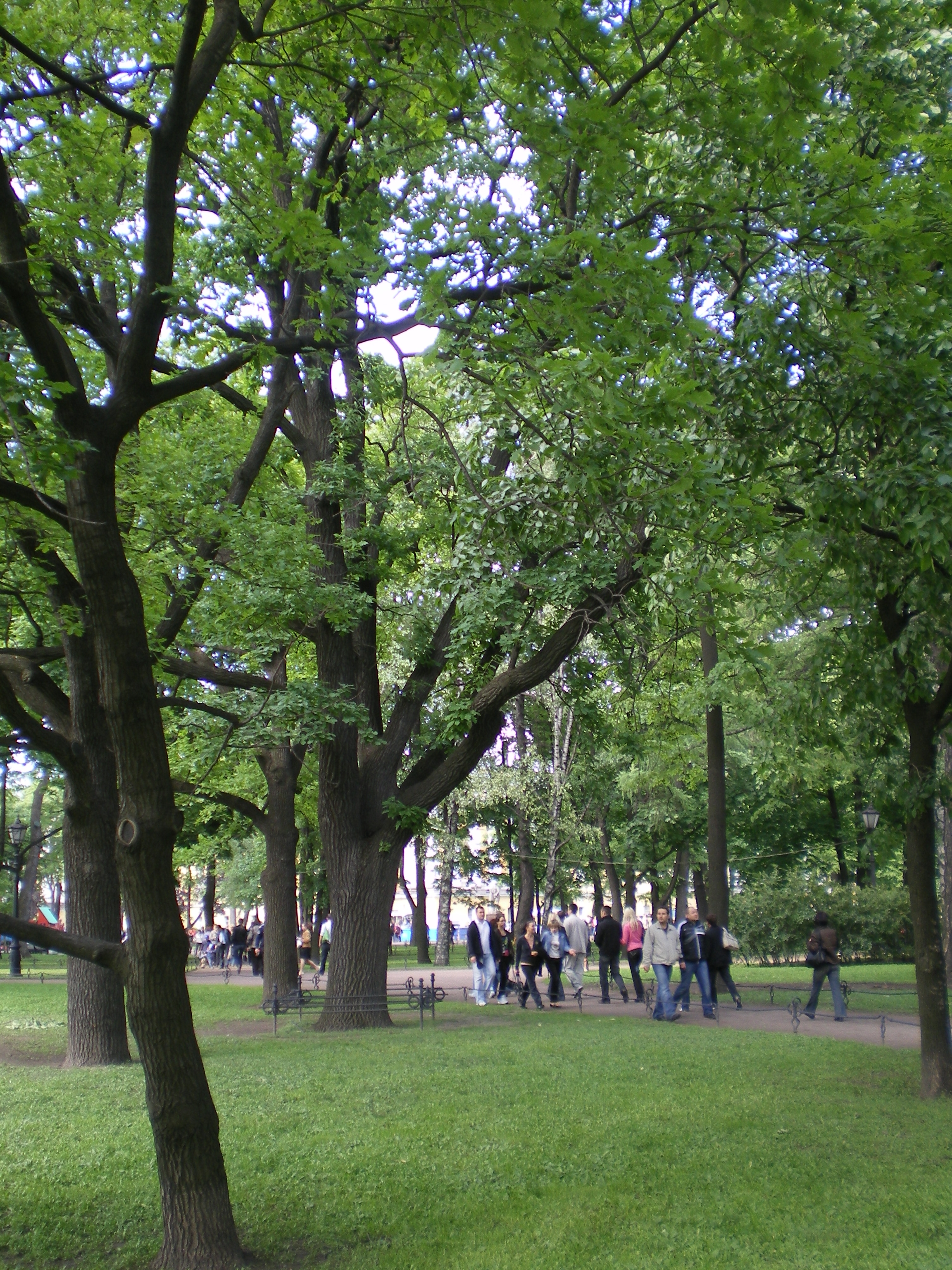 Oak planted by the emperor Alexander II July 10th, 1874